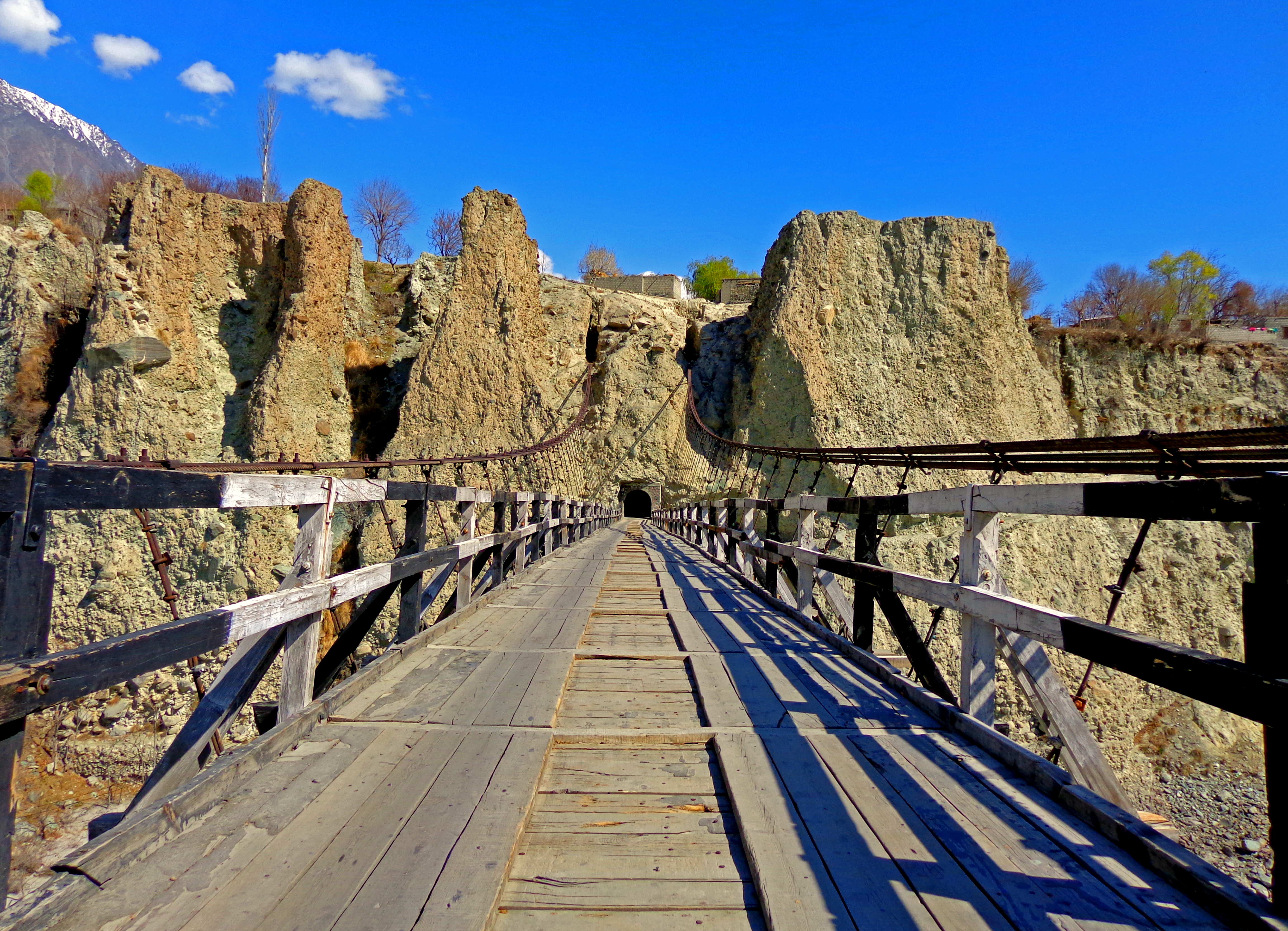 The Bridges of adventures, Danyour, Gilgit District, Gilgit-Baltistan, Pakistan EXIF: Sony DSC-H90 Focal length 4mm F-Stop F/8 Exposure 1/200sec ISO-80 Post Processing: PhotoShop CS2